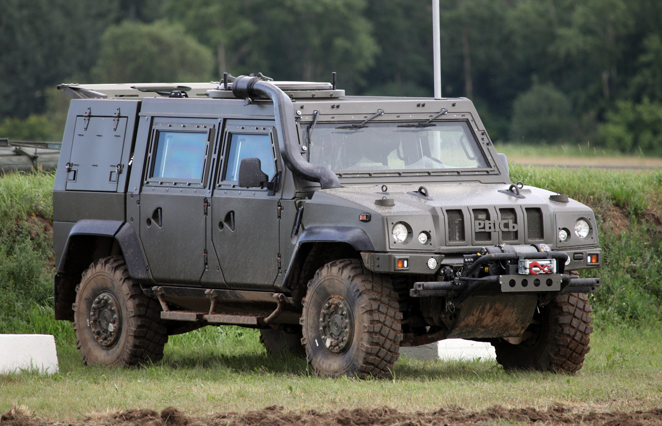 Iveco LMV Lynx armoured vehicle